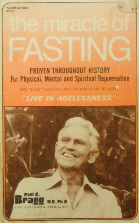 The book of The Miracle of Fasting with the photo of Paul C. Bragg